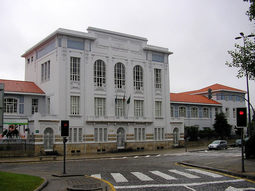 Rodrigues de Freitas secondary school in Porto city, Portugal.